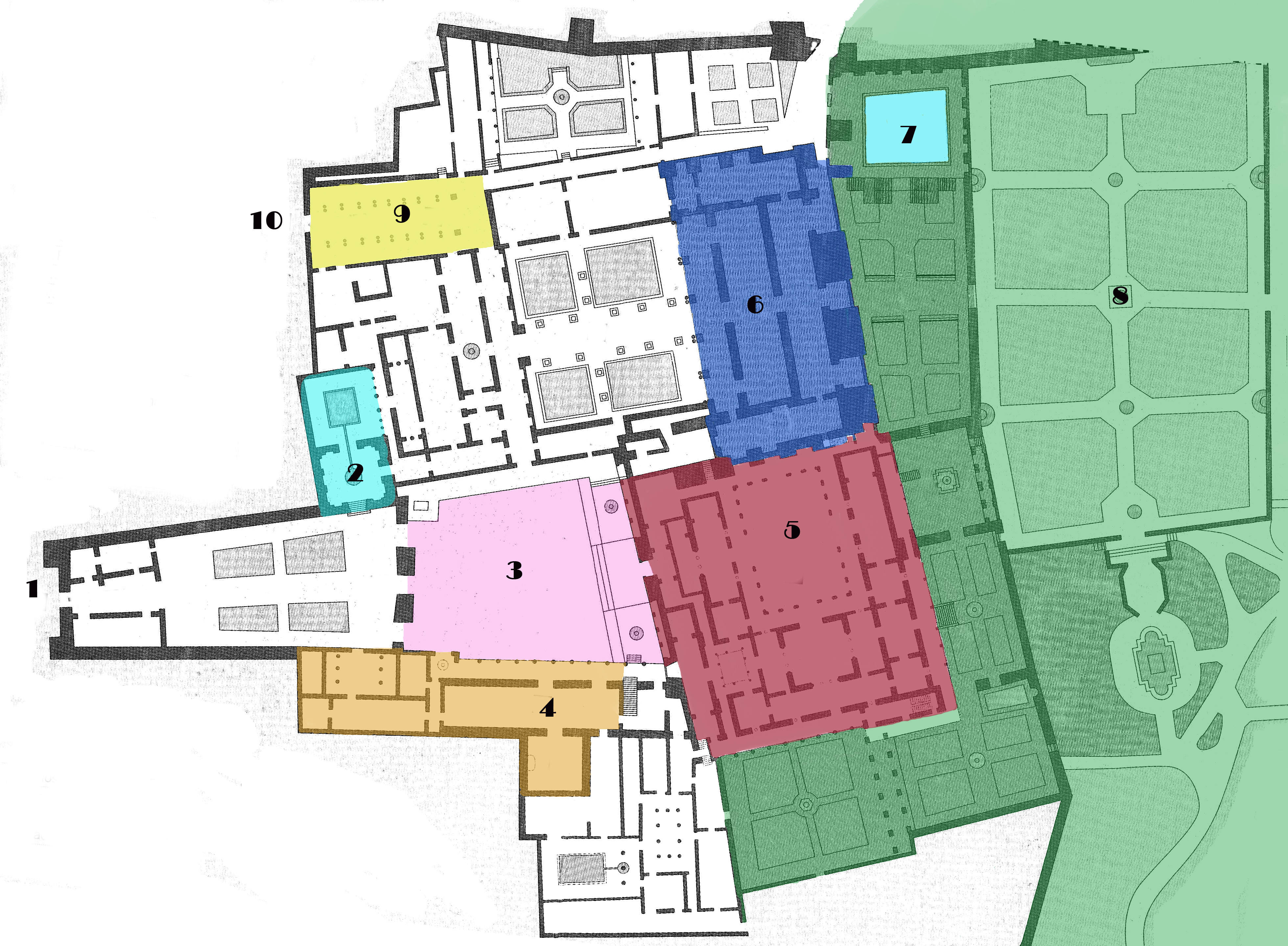 Plano de los Reales Alcázares de Sevilla 1-Lion's Gate 2-Justice Room (color celeste) 3-Playground Montería (rosa) 4-Admiral's room (crema) 5-Palace of Pedro I (rojo) 6-Gothic Palace (azul) 7-Mercury Pond 8-Gardens (verde) 9-Halt 10-Flags Yard